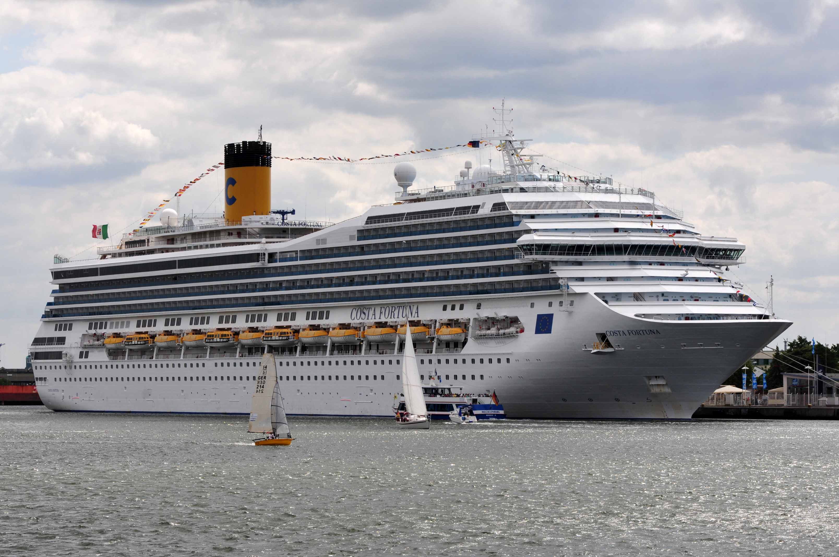 Costa Fortuna, a cruise ship for Costa Crociere built in 2003